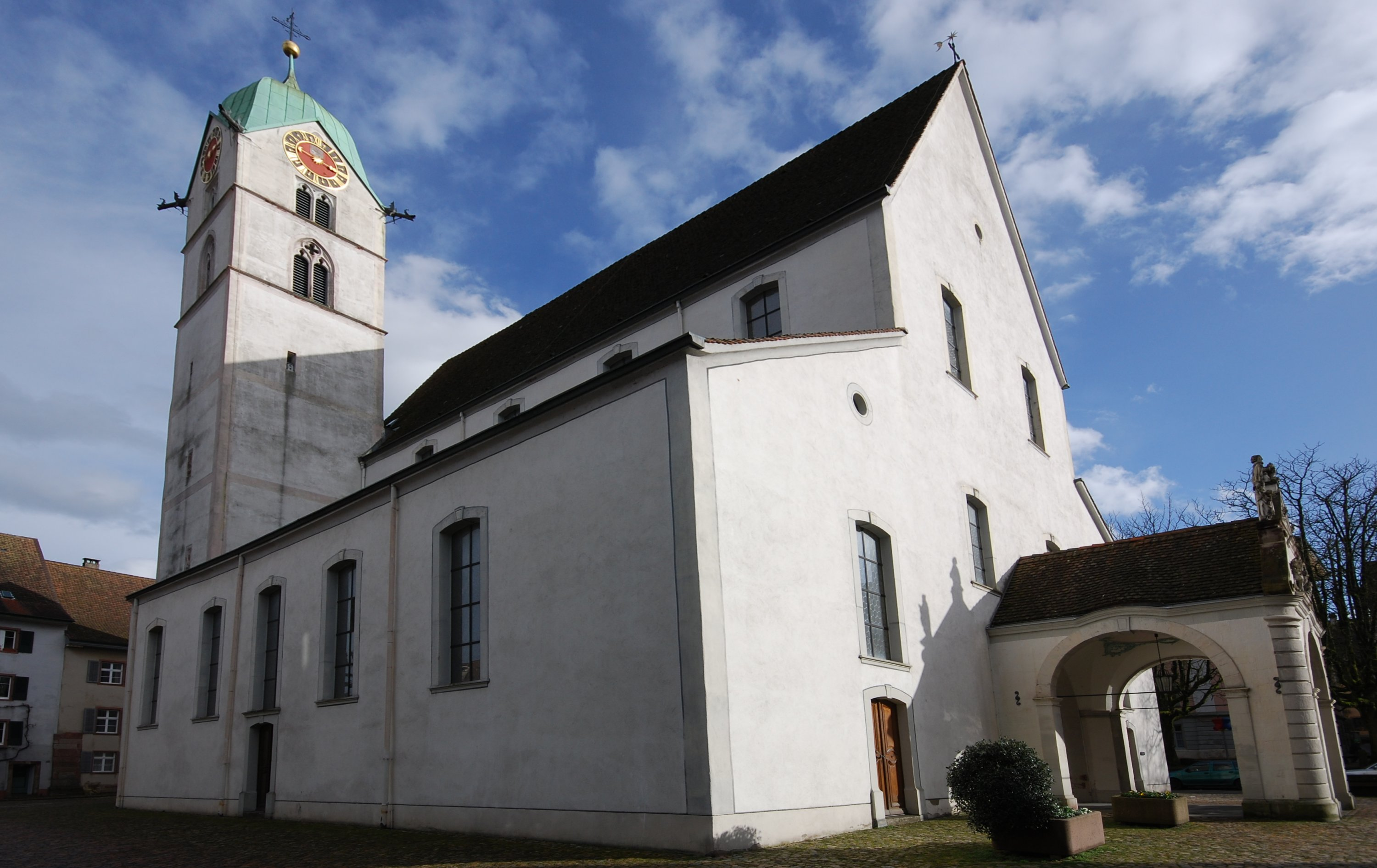 The St. Martins church in Rheinfelden, Switzerland